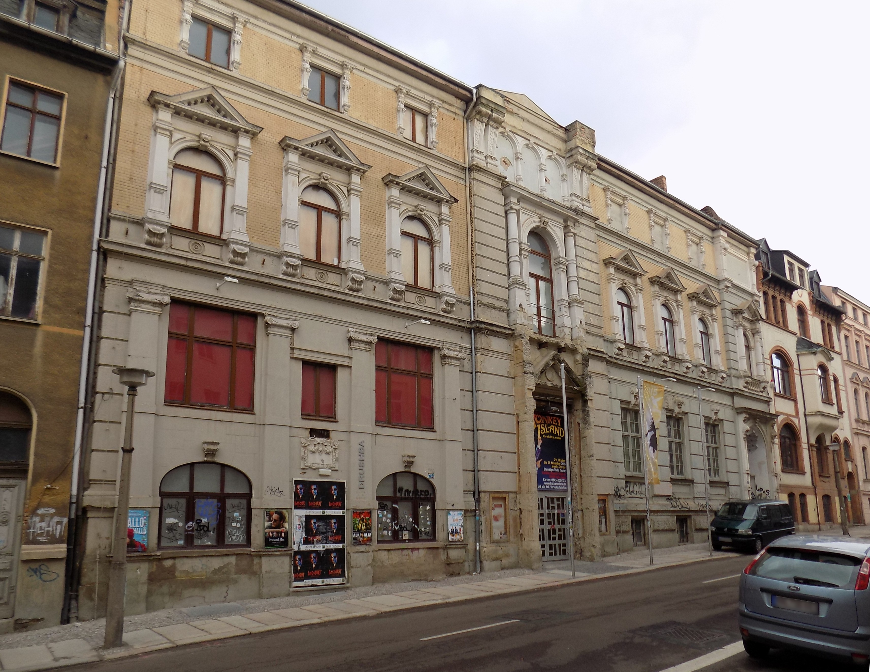 No. 6, Kardinal-Albrecht-Strasse in Halle/Saale (Saxony-Anhalt)